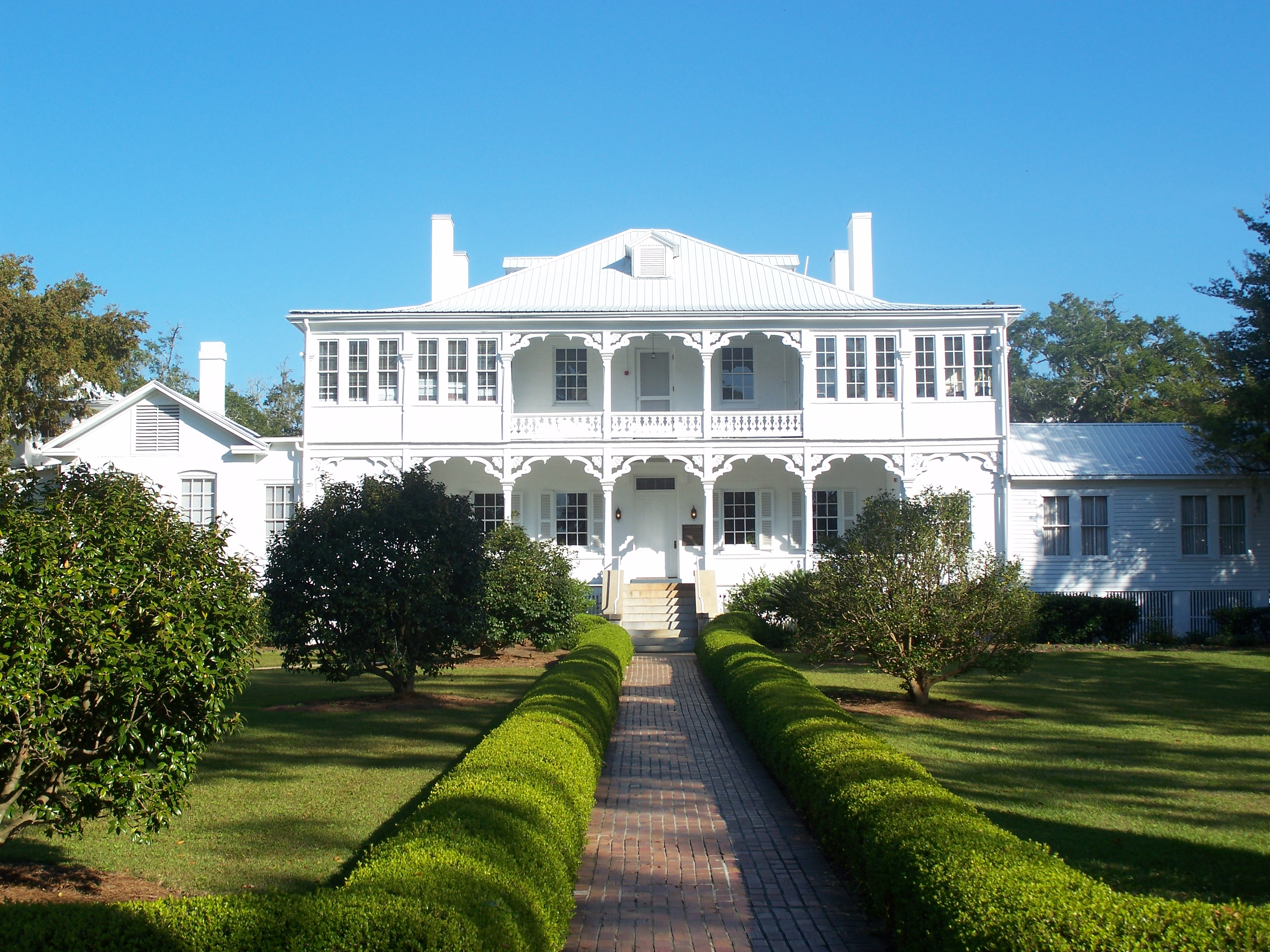 US Arsenal-Officers Quarters, in Chattahoochee, Florida